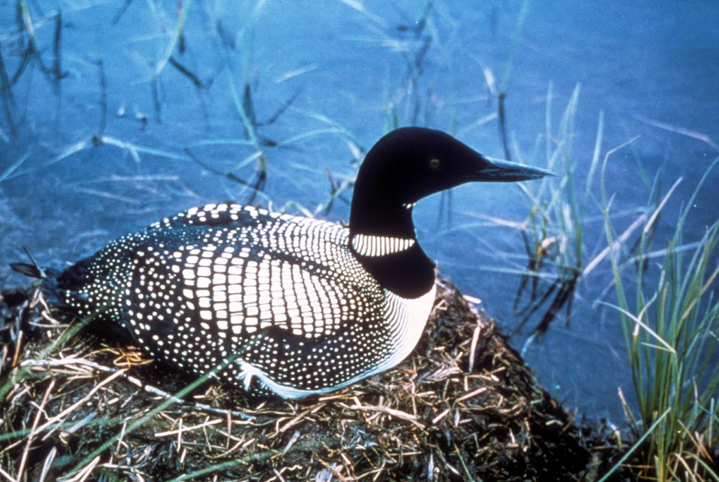 Gavia immer Common Loon on nest, Alaska